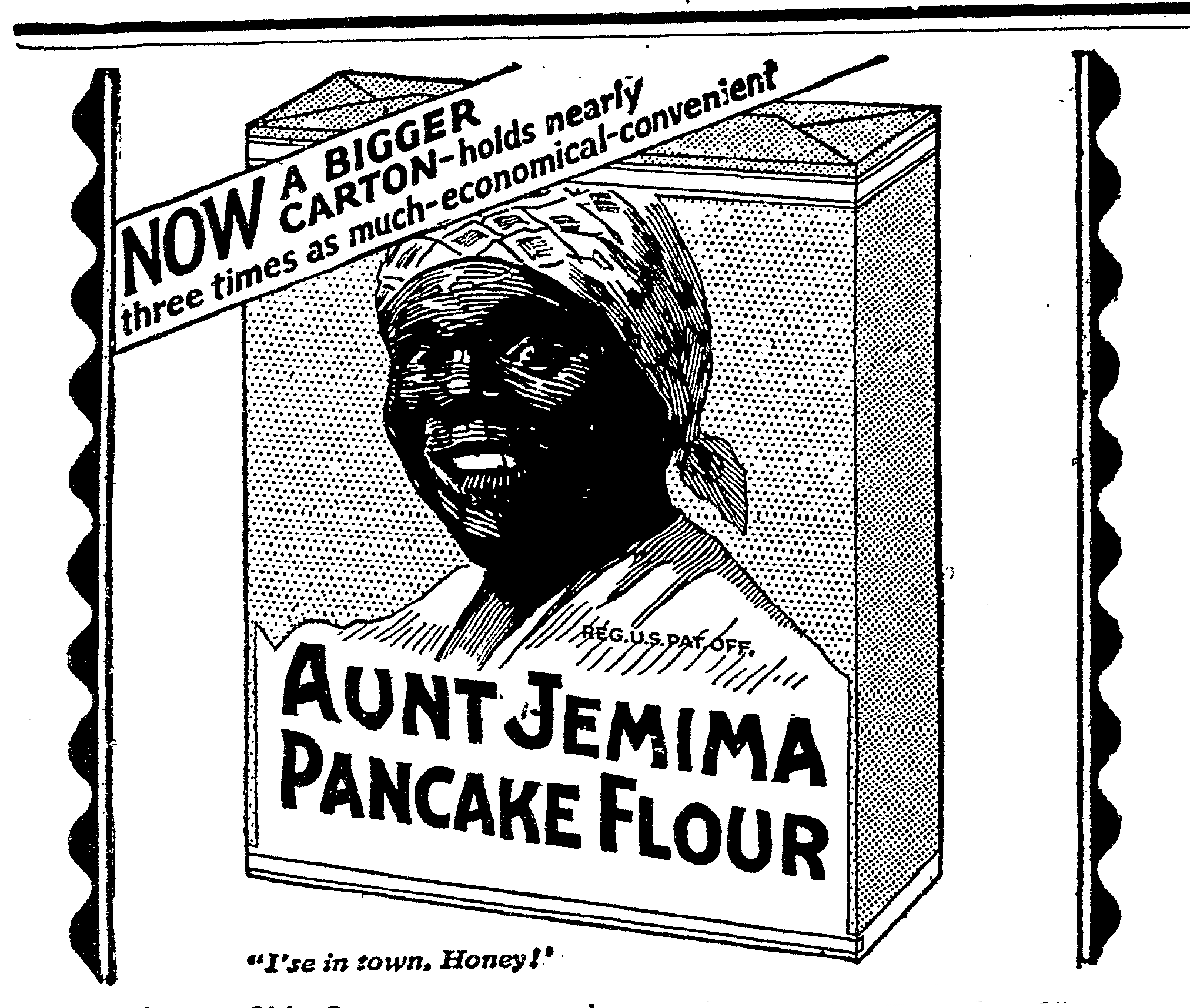 1923 newspaper ad for Aunt Jemima.